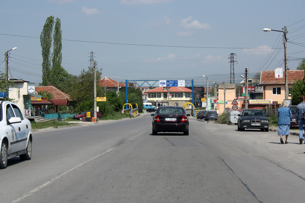 Kostinbrod main street - on the road from Sofia to Lom